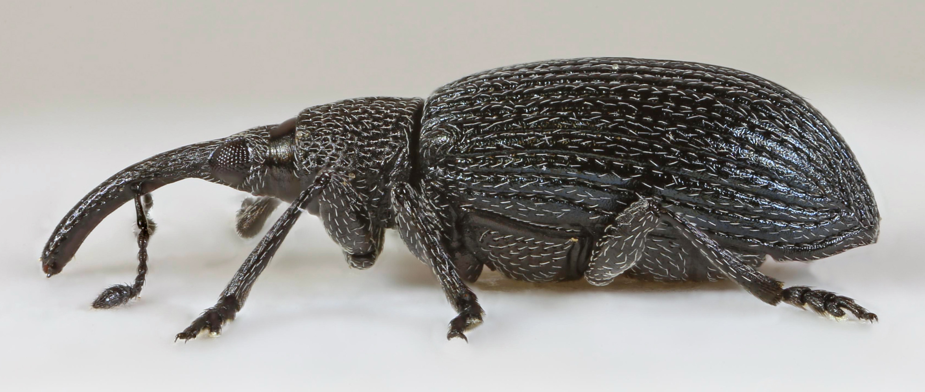 Apion meliloti, Brymbo, North Wales, Aug 2016 2